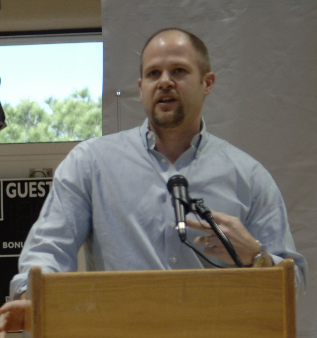 Danny Wuerffel, a former National Football League quarterback, talks to air commandos from Hurlburt Field, Eglin Air Force Base, Fla., at the air base Feb. 20, 2009. Wuerffel, Tim Tebow, a University of Florida quarterback (seated second from left), and professional golfer Boo Weekley (seated second from right) visited Hurlburt Field to boost the morale of its Airmen. VIRIN: 090220-F-7705D-129